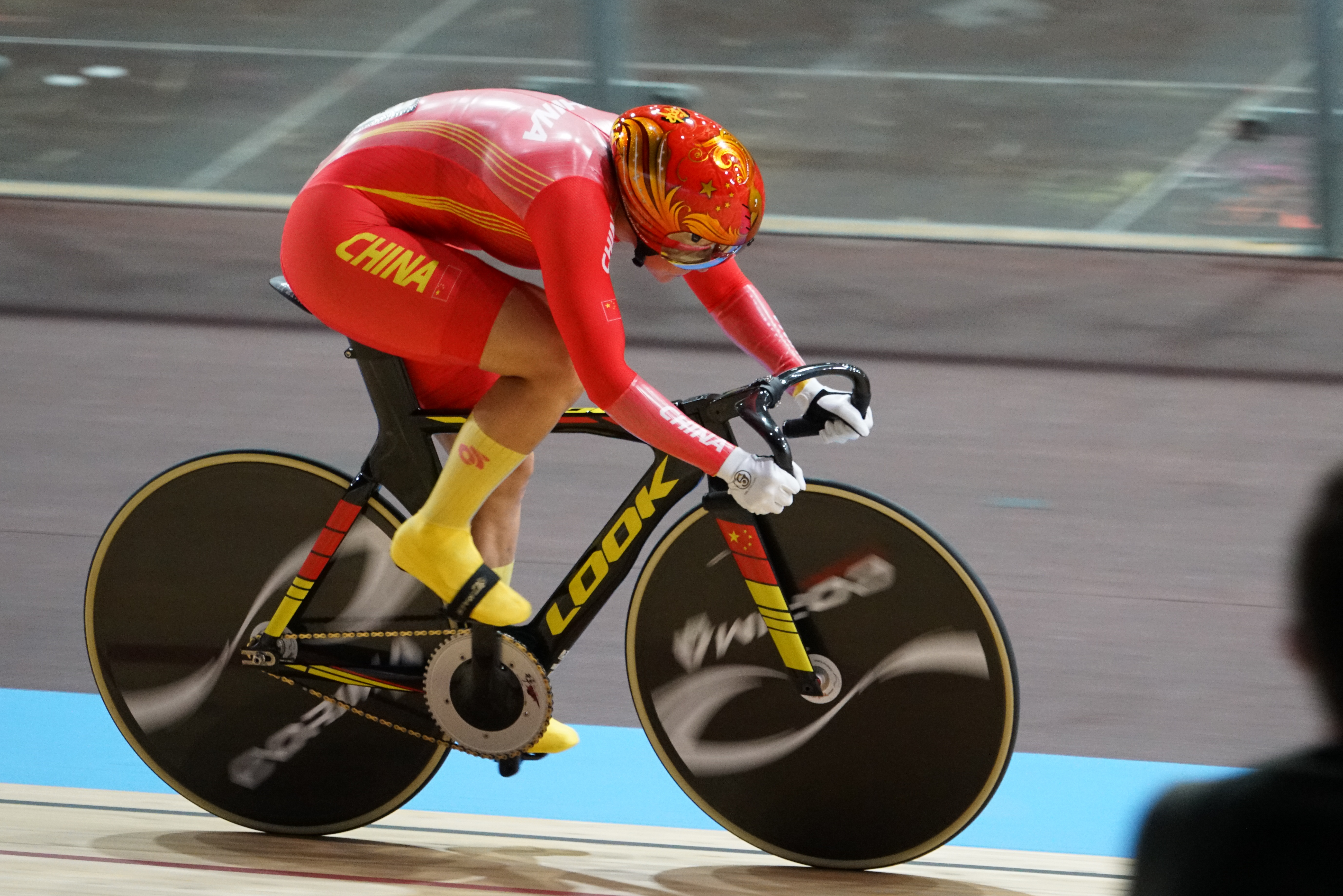 2020 UCI Track Cycling World Championships – Women's Team Sprint First Round - Zhong Tianshi